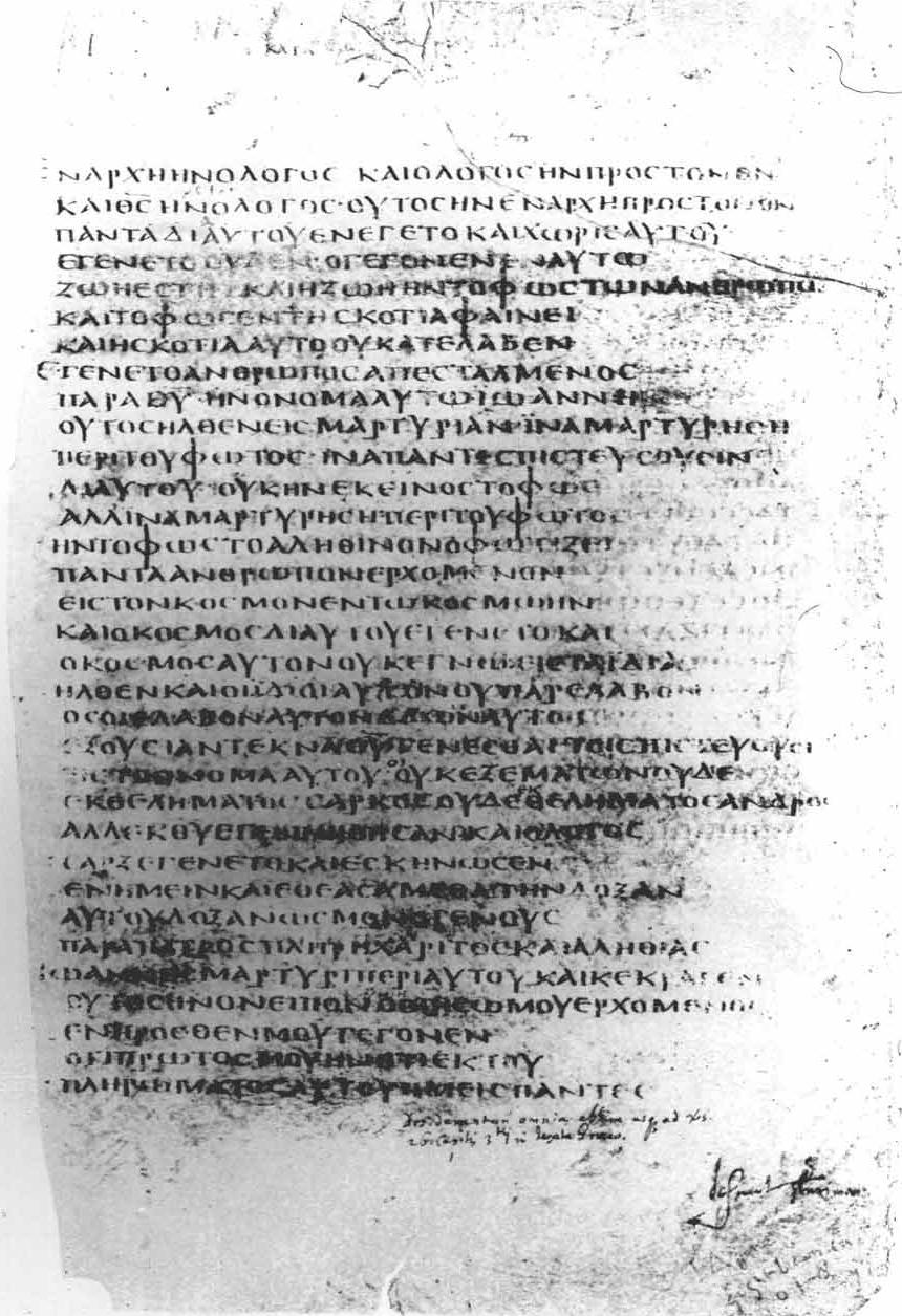 page with text of Jon 1:1-16 (in Greek)